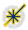 Crest of Madonna di Campiglio